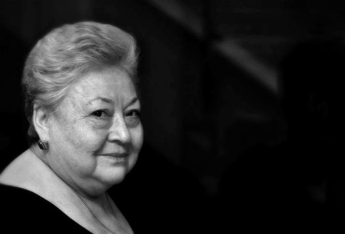 Piroska Molnár (born 1 October 1945) is a Hungarian actress.